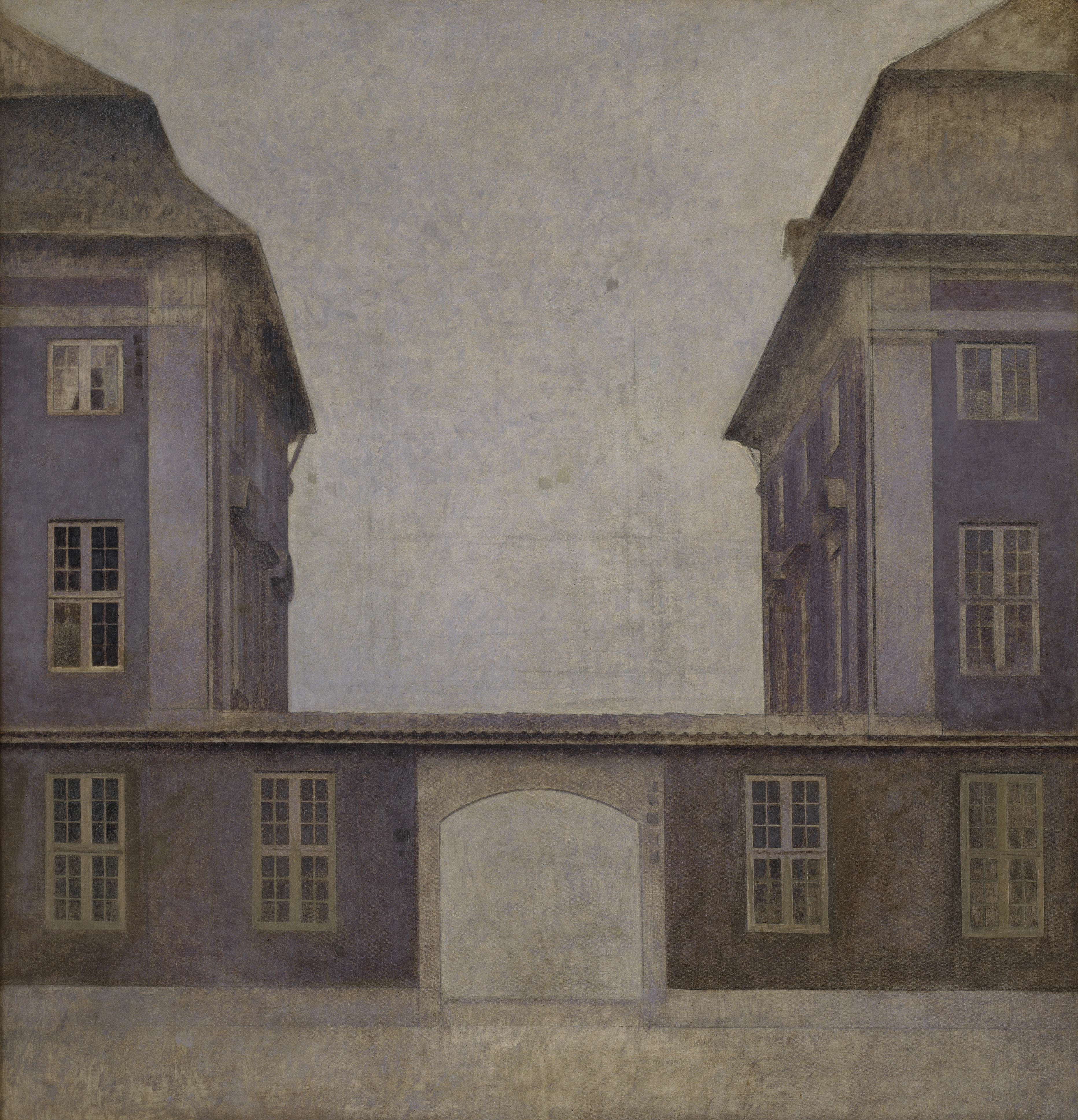 Depicted place: (55°40′28″N 12°35′26″E / 55.67436°N 12.590611°E)